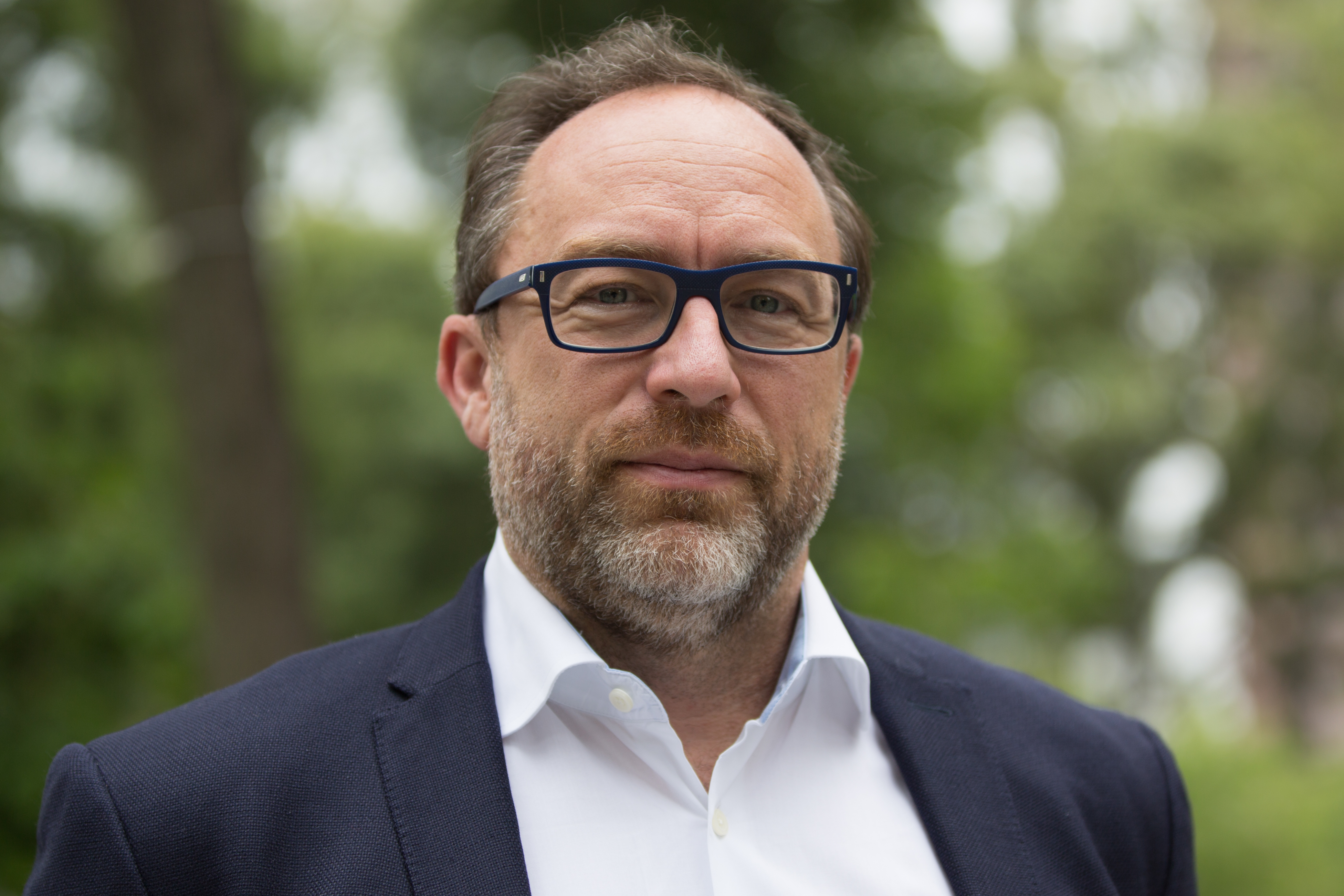 Jimmy Wales at Wikimania 2015